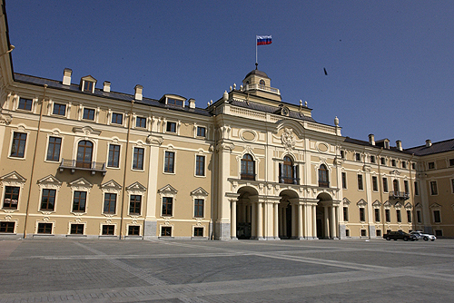 Saint Petersburg (Russia), Strelna, Constantine Palace.